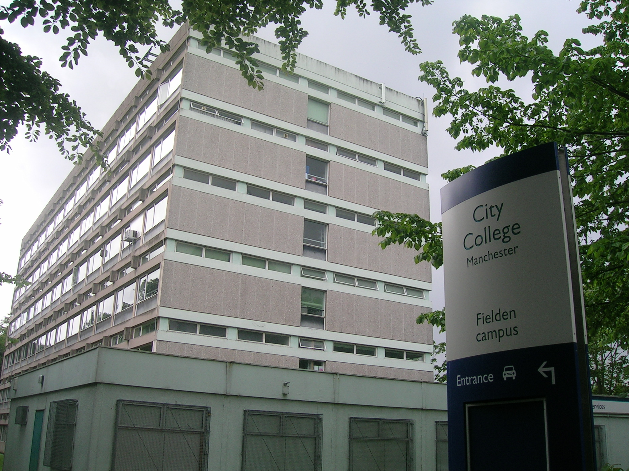 City College Manchester, located in West Didsbury